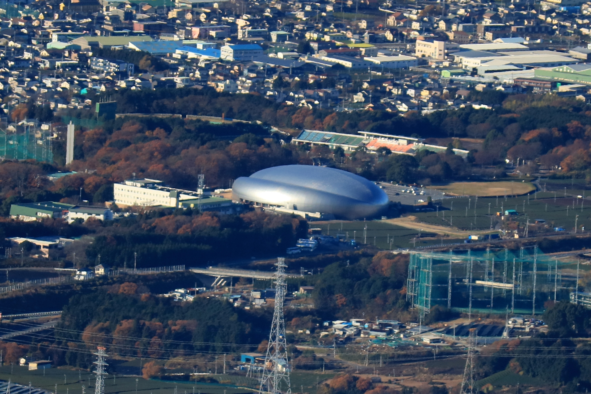 Shizuoka Prefectural Fuji Swimming Pools seen from Ashitaka Mountains in Fuji, Shizuoka prefecture, Japan.